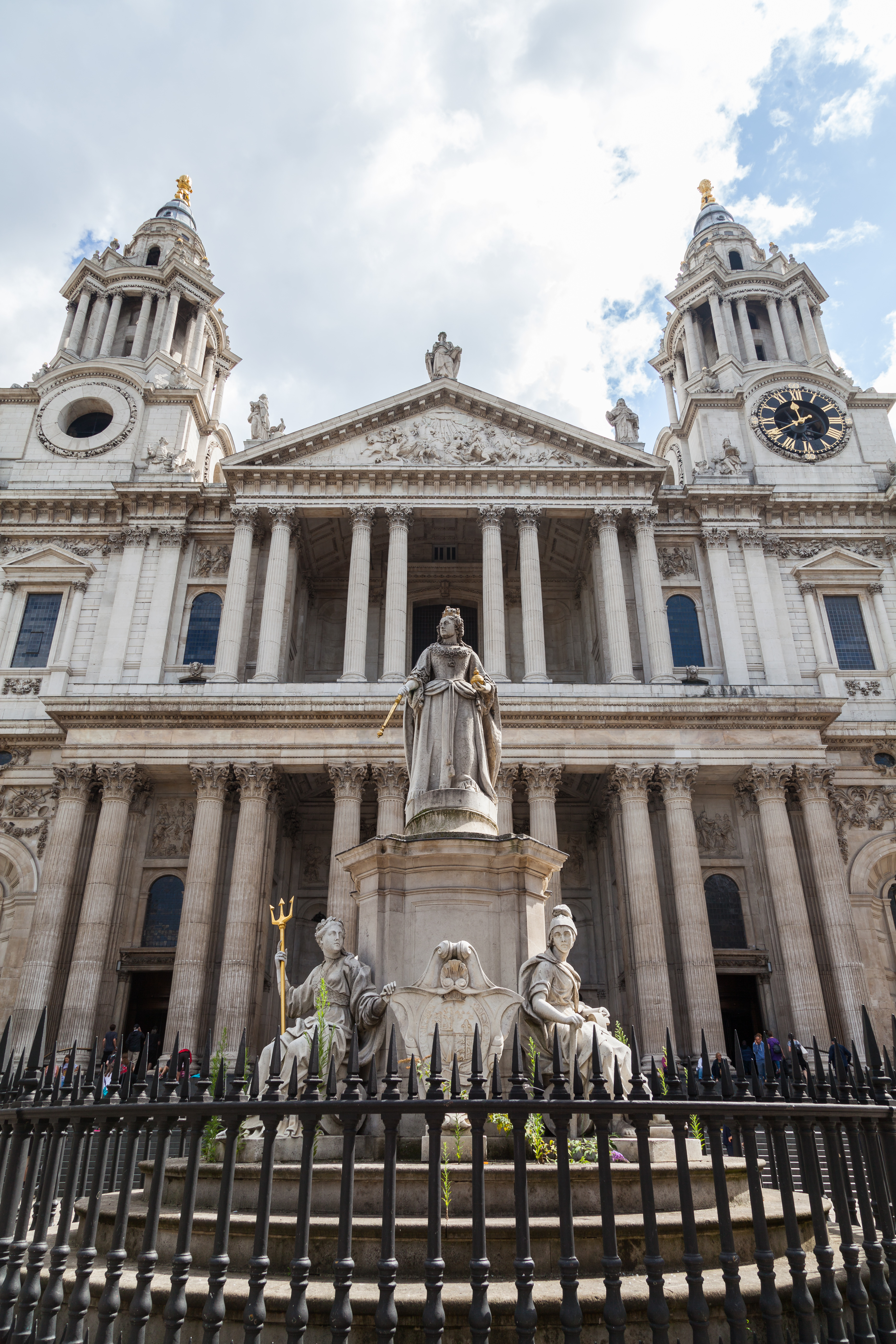 Anne of Great Britain statue, St Paul's Cathedral, London, England